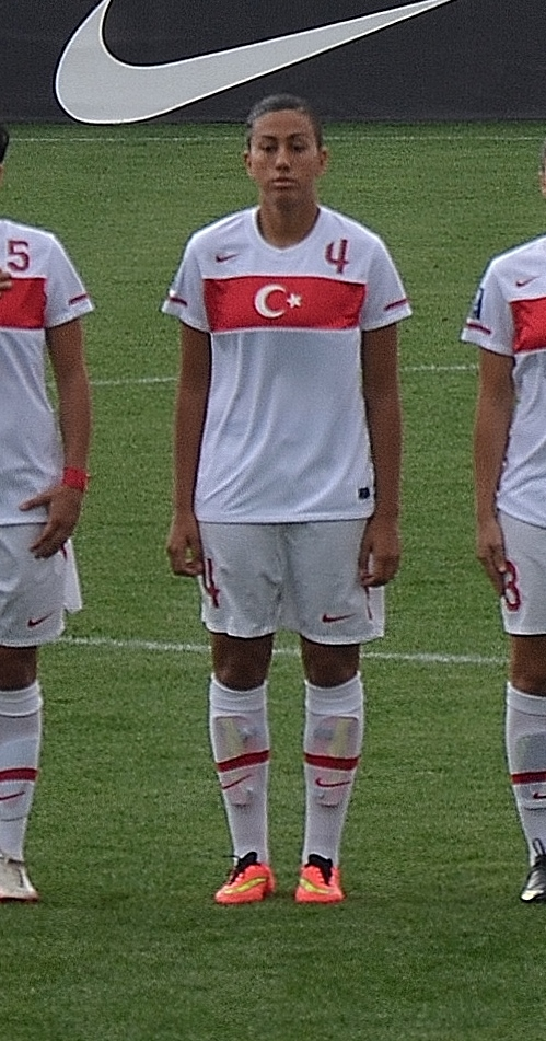 Yaşam Göksu for Turkey women's national football team in the home match against Belarus